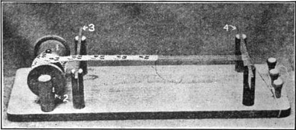 A bead loom from the turn of the 20th Century.